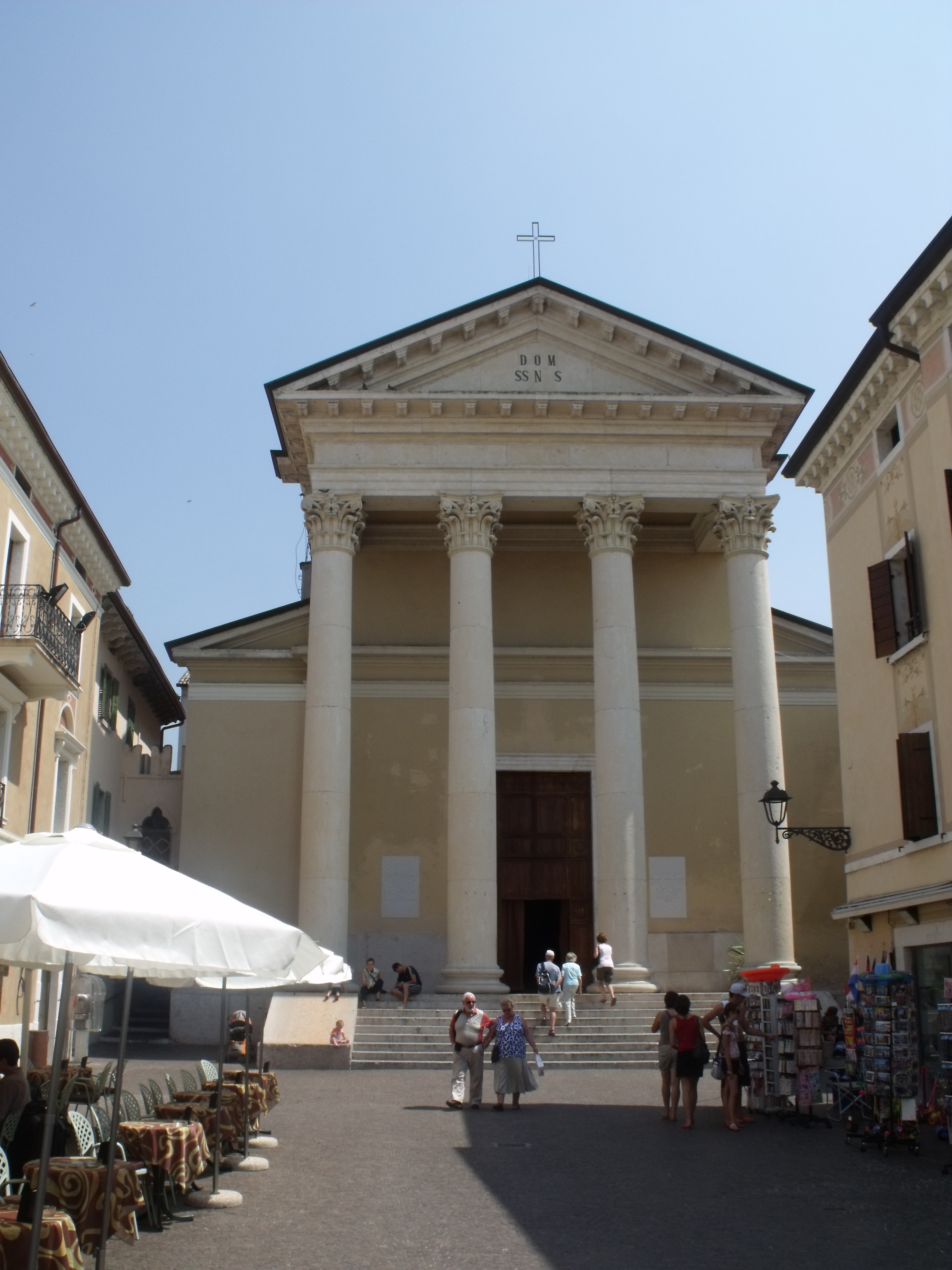 Bardolino is a town to the south of Garda. Other holiday makers also stayed in this town, while we and others stayed in Garda. We went here on our last full day as it wasn't too far away from Garda. This church is in Piazza Bassani Raimondi. It has "DOM SS N S" on the top of it.